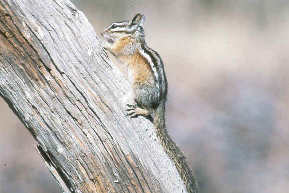 Townsend's Chipmunk (Tamias townsendii)